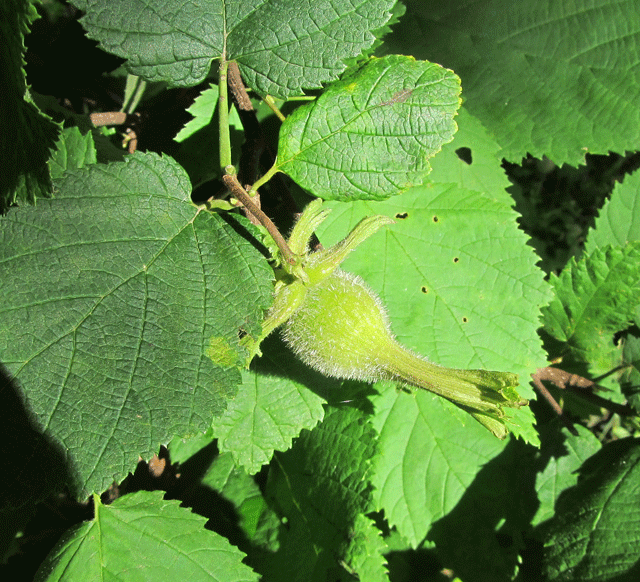 Found in Judge Magney State Park, Minnesota